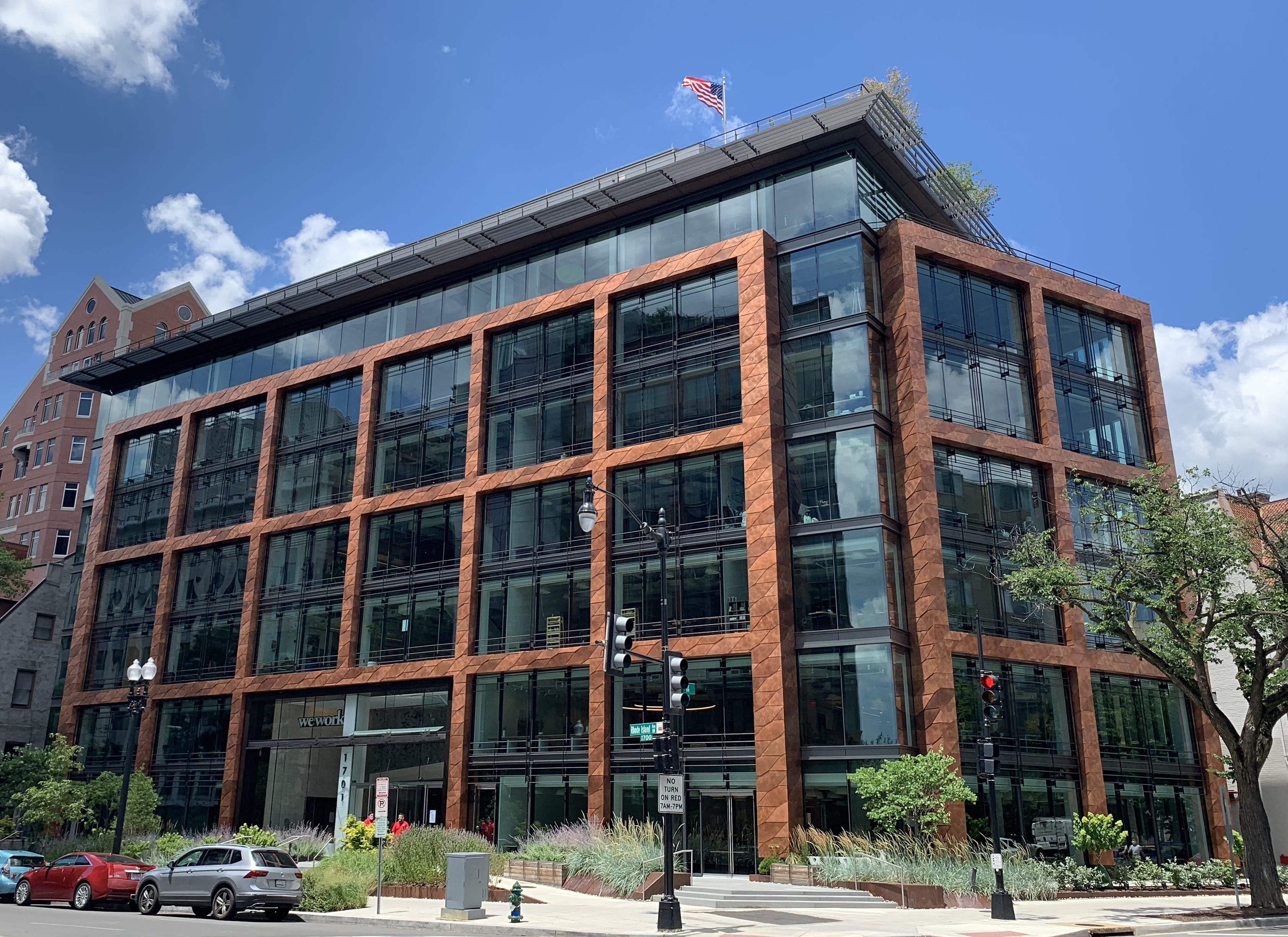 WeWork offices located at 1711 Rhode Island Avenue NW in Washington, D.C. The building, previously home to the local YMCA, was constructed in 1978 but drastically remodeled in 2019.